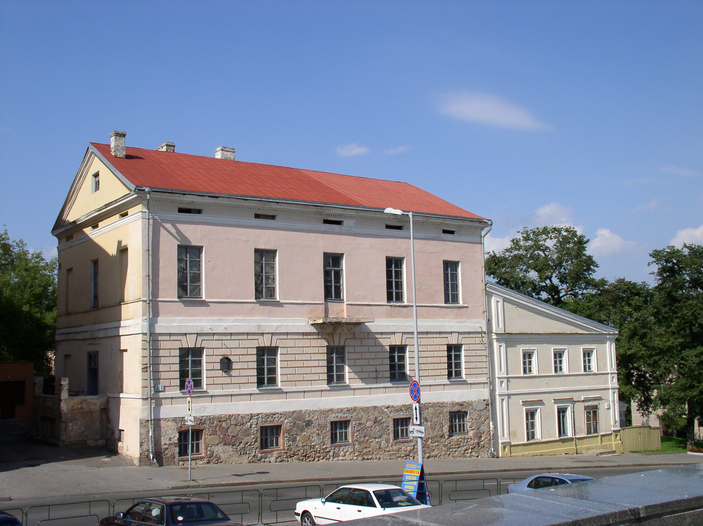 International street, 31, 33. Minsk, Belarus.